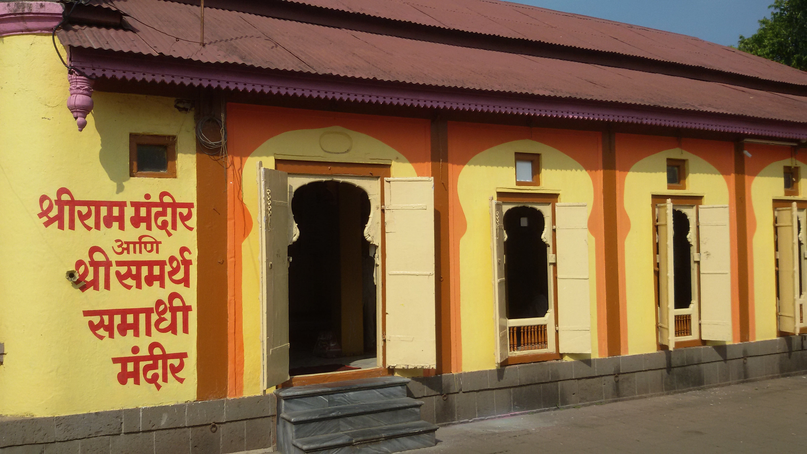 सज्जनगड समर्थ रामदास स्वामी स्थापित स्थान